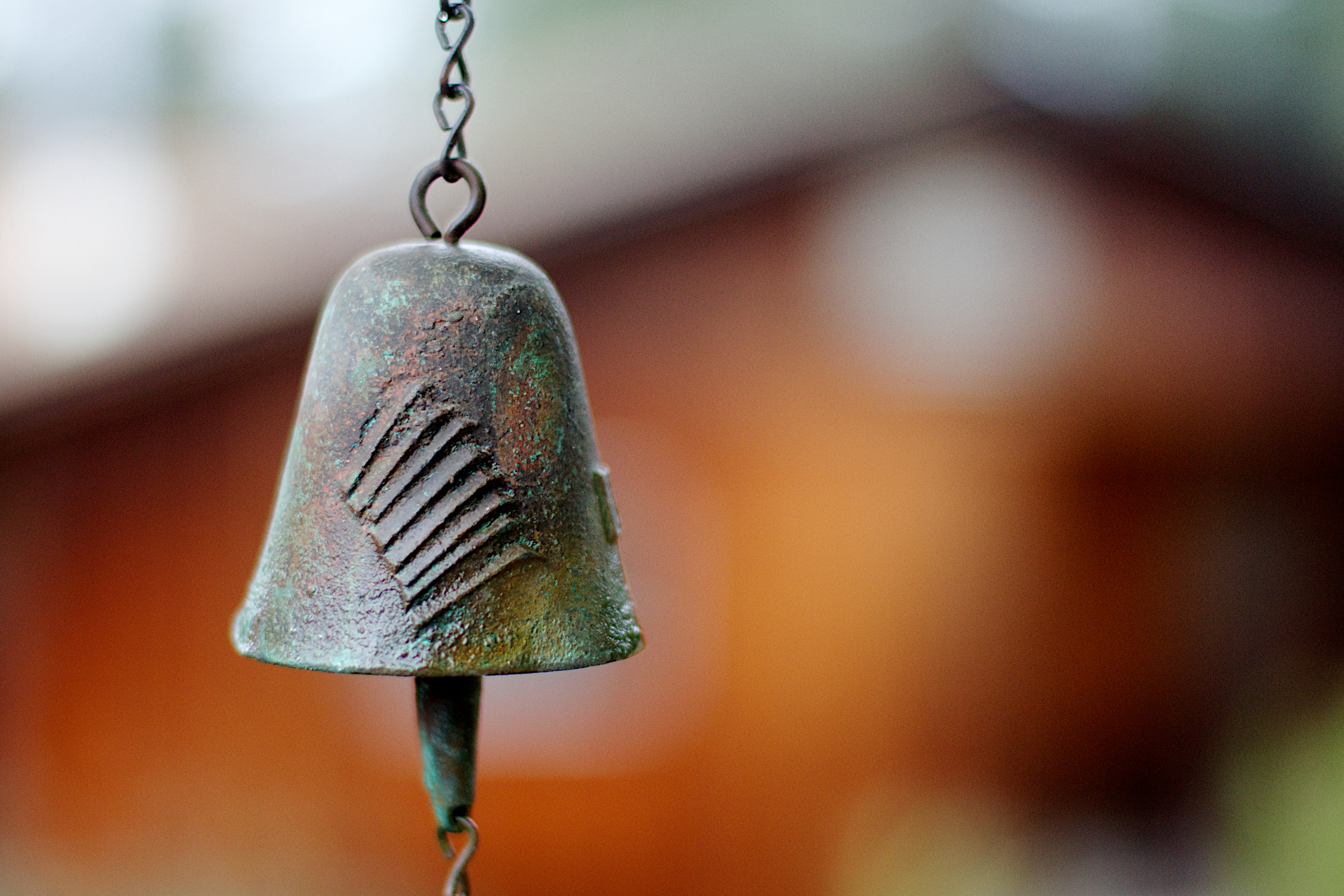 2016/366/357 You Can Ring My Soleri Bell